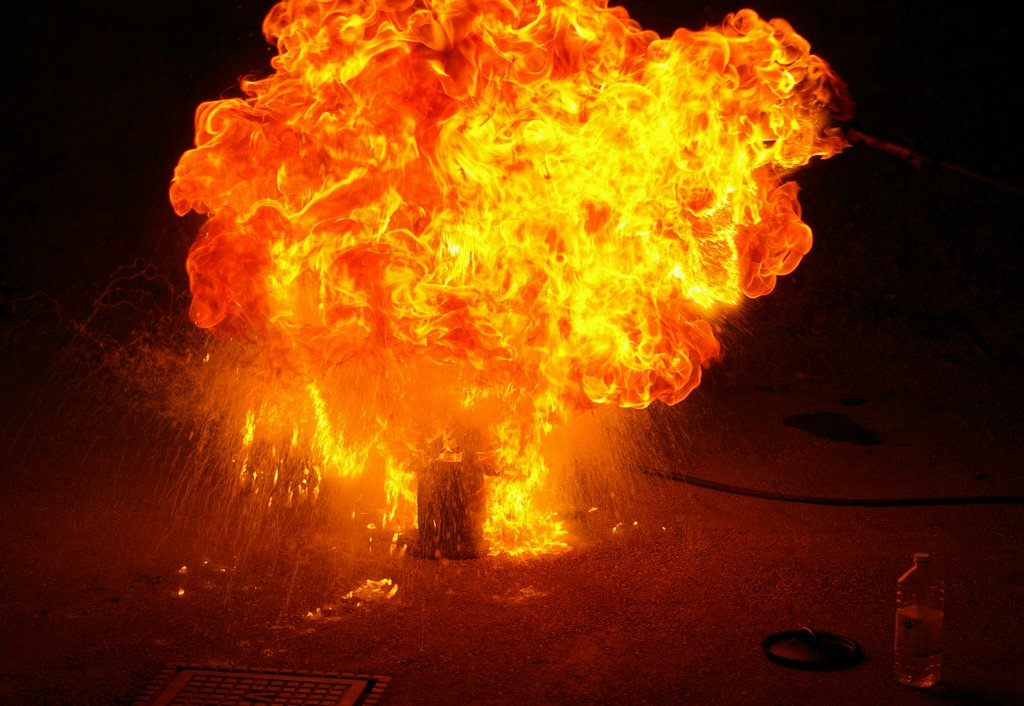 Fire